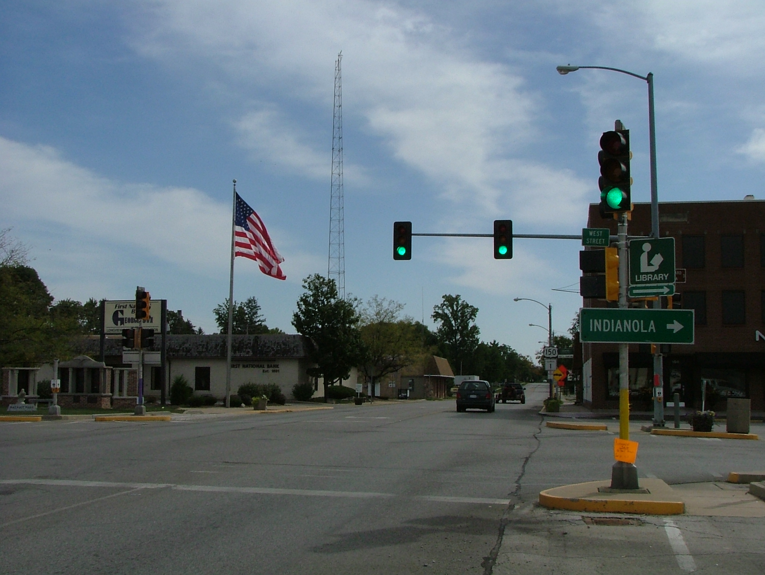 The intersection of US 150 and West Street in Georgetown, Illinois, looking south